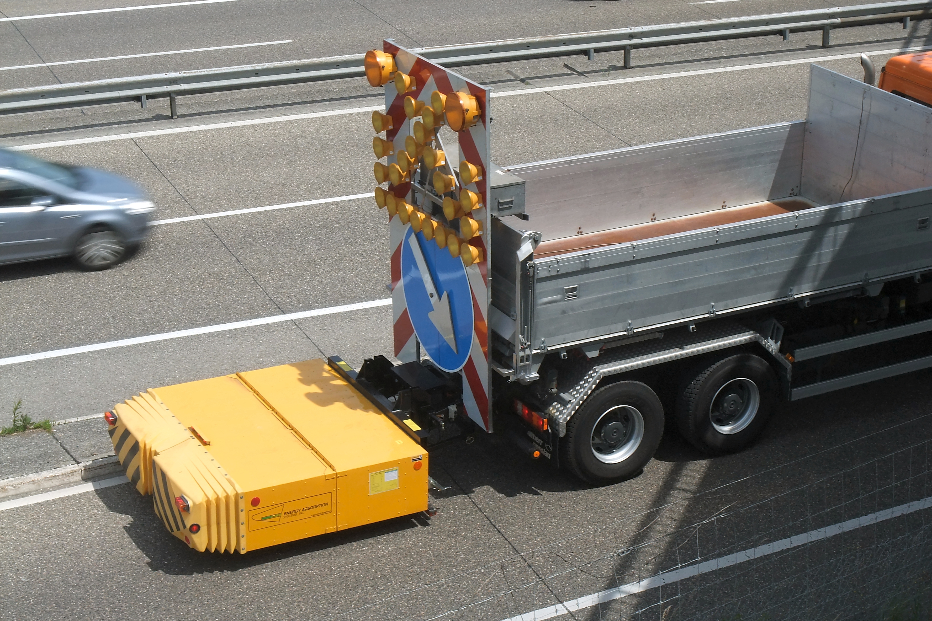 For works on roads with fast traffic this buffer protection device was developed. In spite of conspicuous marking, the trucks of the road maintenance are rammed again and again. If active systems such as flashing lights are not enough, only passive systems as this buffer can help. Freeway entrance ramp to A1 in St.Margrethen, Switzerland, June 3, 2009. See where this picture was taken. [?]